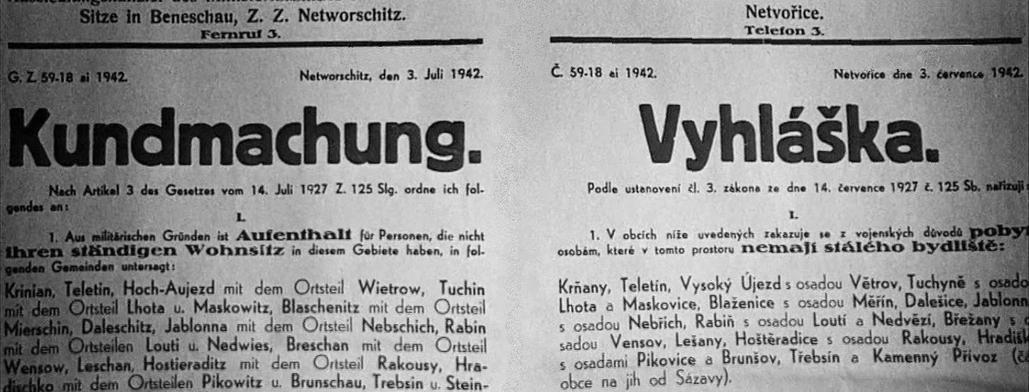 Ordinance concerning expulsion